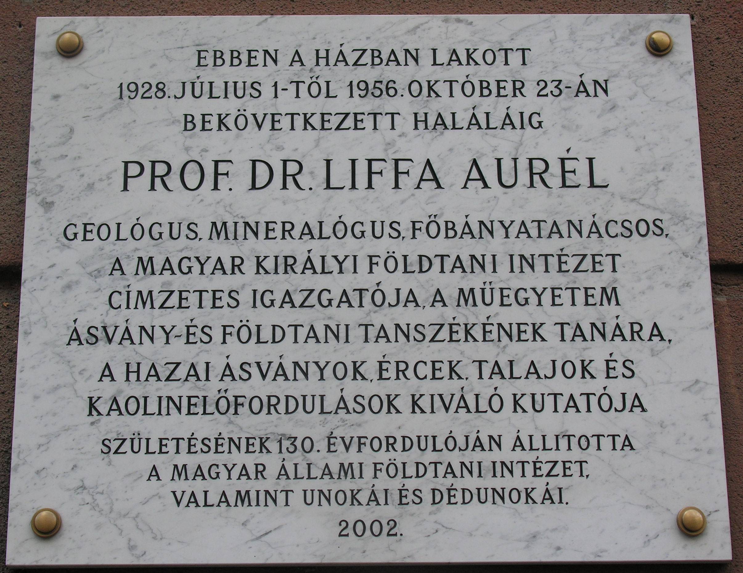 Commemorative plaque of Aurél Liffa, Budapest District VII, Damjanich Street No 42